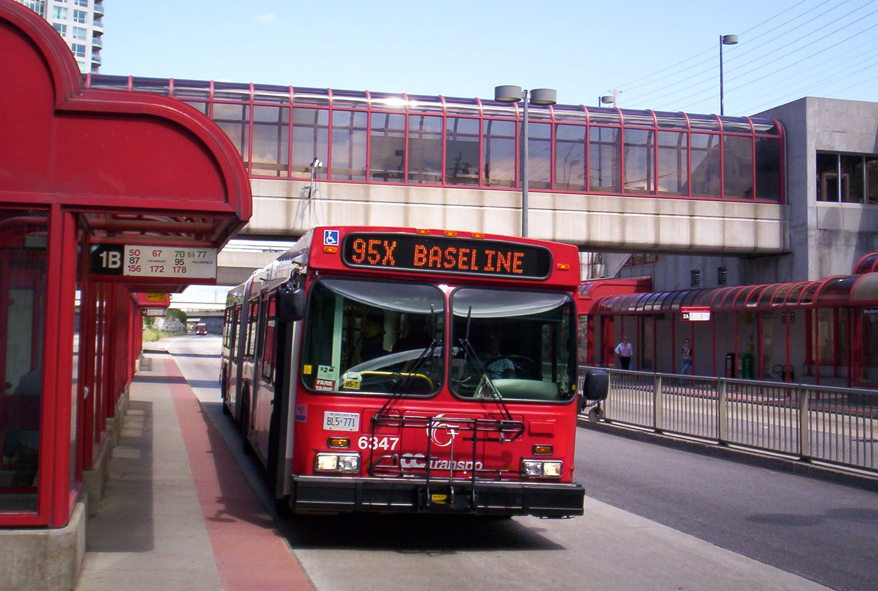 Westboro Transitway station, Ottawa, Ontario, Canada. Personal photo by user:Radagast.